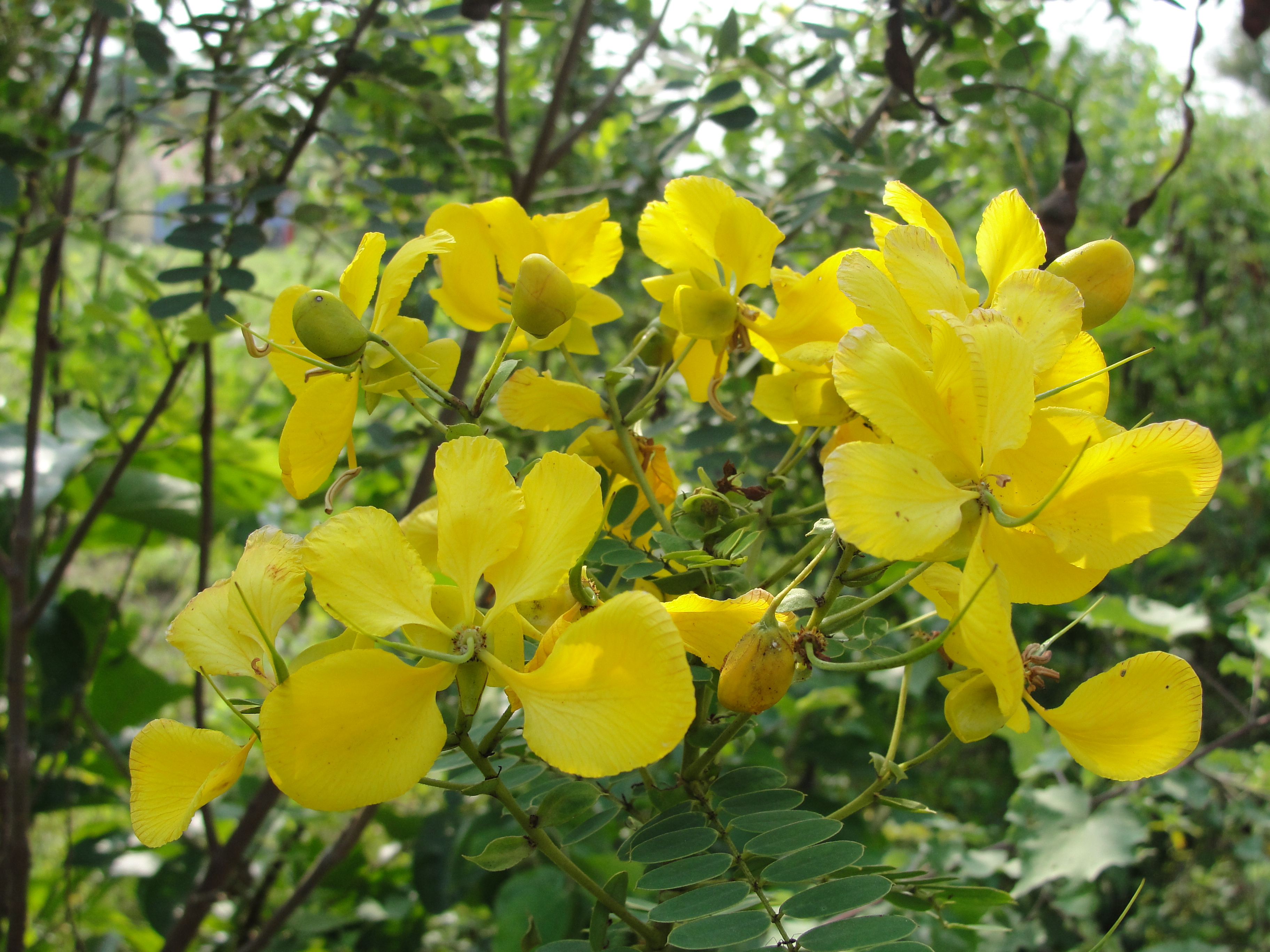 A Cassia auriculata shrub